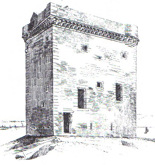 Little Cumbrae Island, Firth of Clyde, Scotland